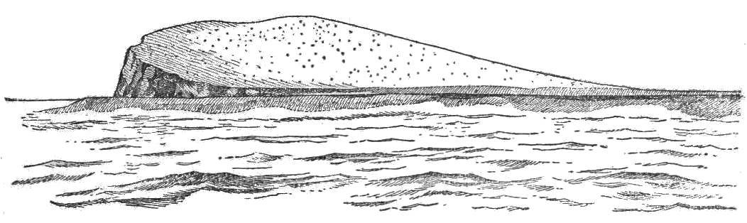 Falcon Island or Fonuafoʻou, Tonga